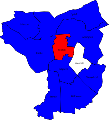 A map of the results of the 2007 Tamworth Council election. Colour legend by wards won: Conservative party Labour party Independent